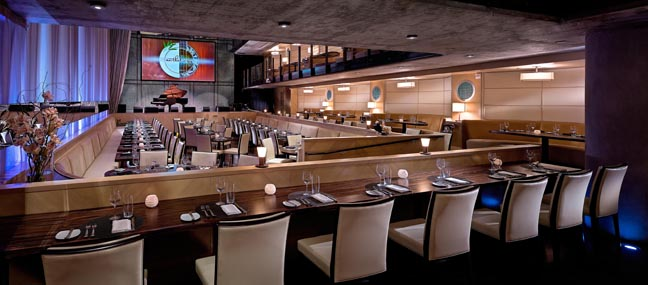 Anthology main floor